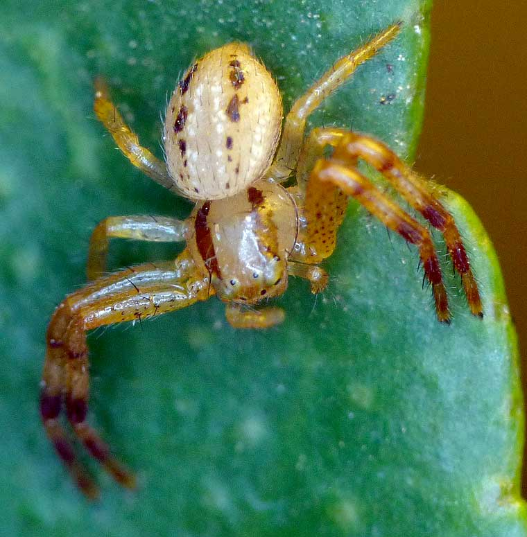 Xysticus bilimbatus This spider is shown on page 105 of Mascord's 1980 book Spiders of Australia, where he notes that in New South Wales it is mostly found on the flowers of Pultenaea spp. The female has a body length of about 5mm, the male 3mm. The egg sac is a small chamber made by fastening together the flowers with silk. When the eggs are laid the spider stays with them in the chamber, probably hunting from the entrance, grabbing small insects attracted to the flowers. This one was on a Grevillea with large yellow flowers, in a local park, Jevons Street Park, The Gap, Brisbane. This young female had a body length of about 4mm.